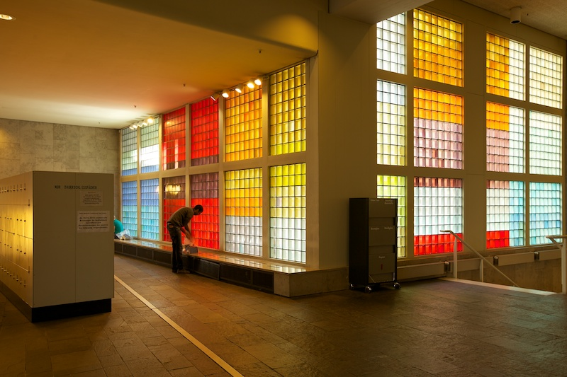 The glass wall in the entrance hall of the Staatsbibliothek zu Berlin (building Potsdamer Straße), designed by Alexander Camaro